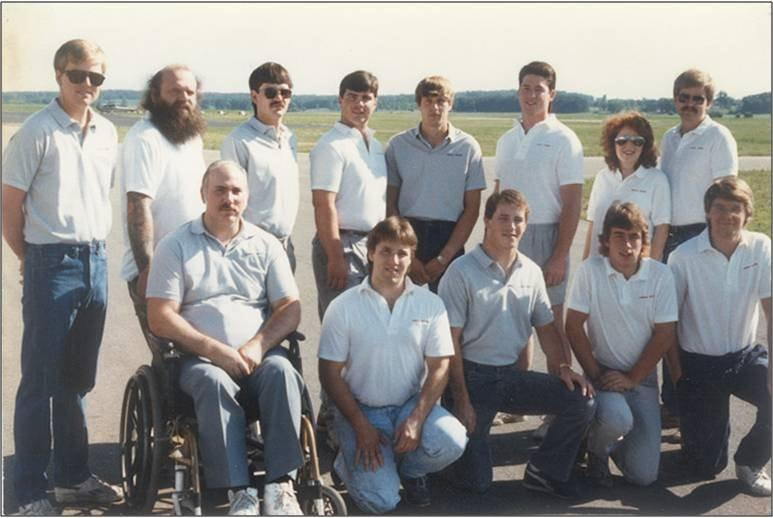 Old Cirrus Team in The Late 80's. (Dale at the top far left, and Alan at the top far right.)